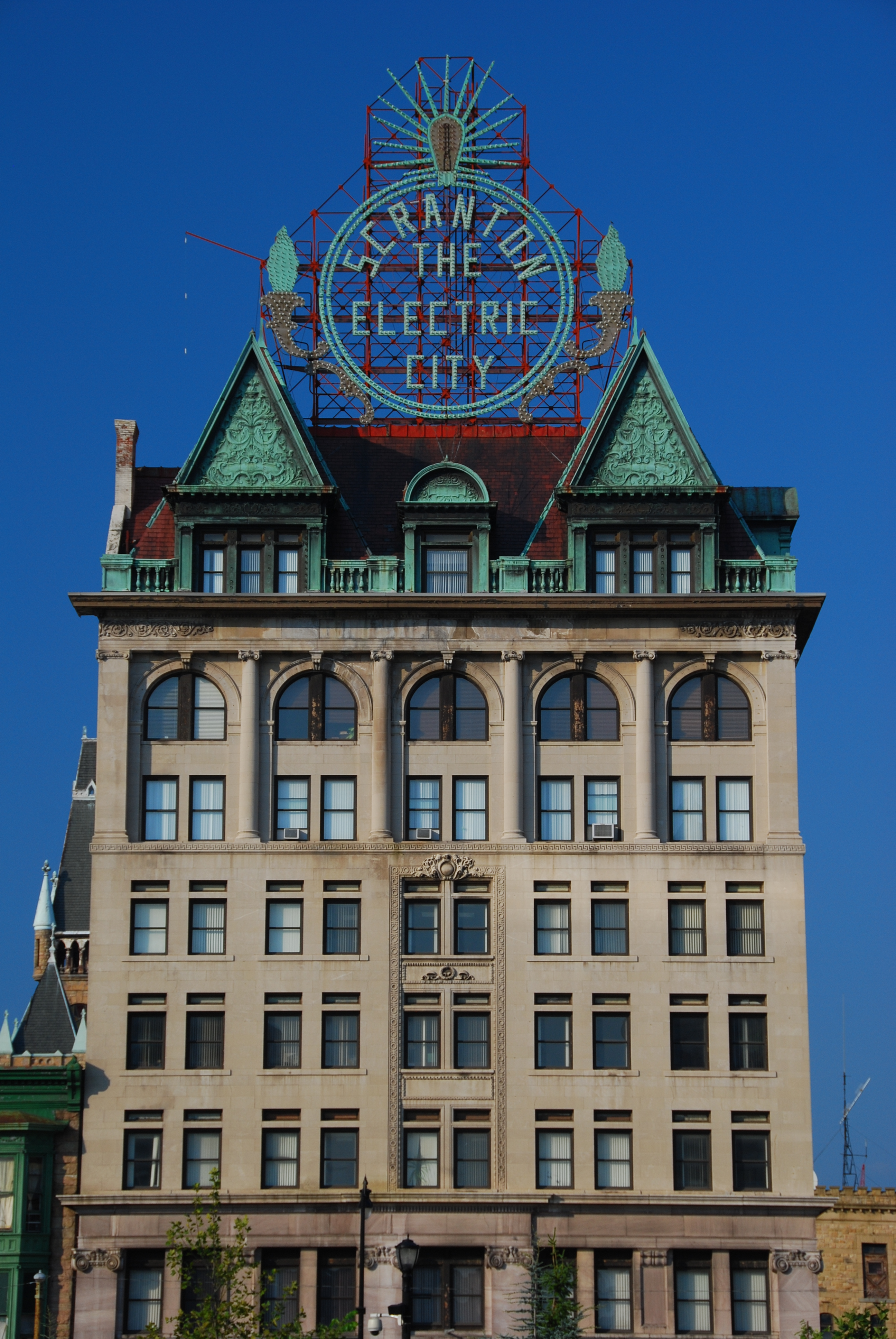 Scranton Electric Building, downtown Scranton, PA